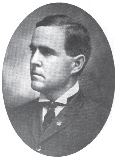 Ohio politician named Grant E. Mouser